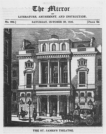 Magazine illustration showing the St James's Theatre, London, in 1836, designed by Samuel Beazley, from "Mirror of Literature, Amusement, and Instruction", 29 October 1836, p. 273.